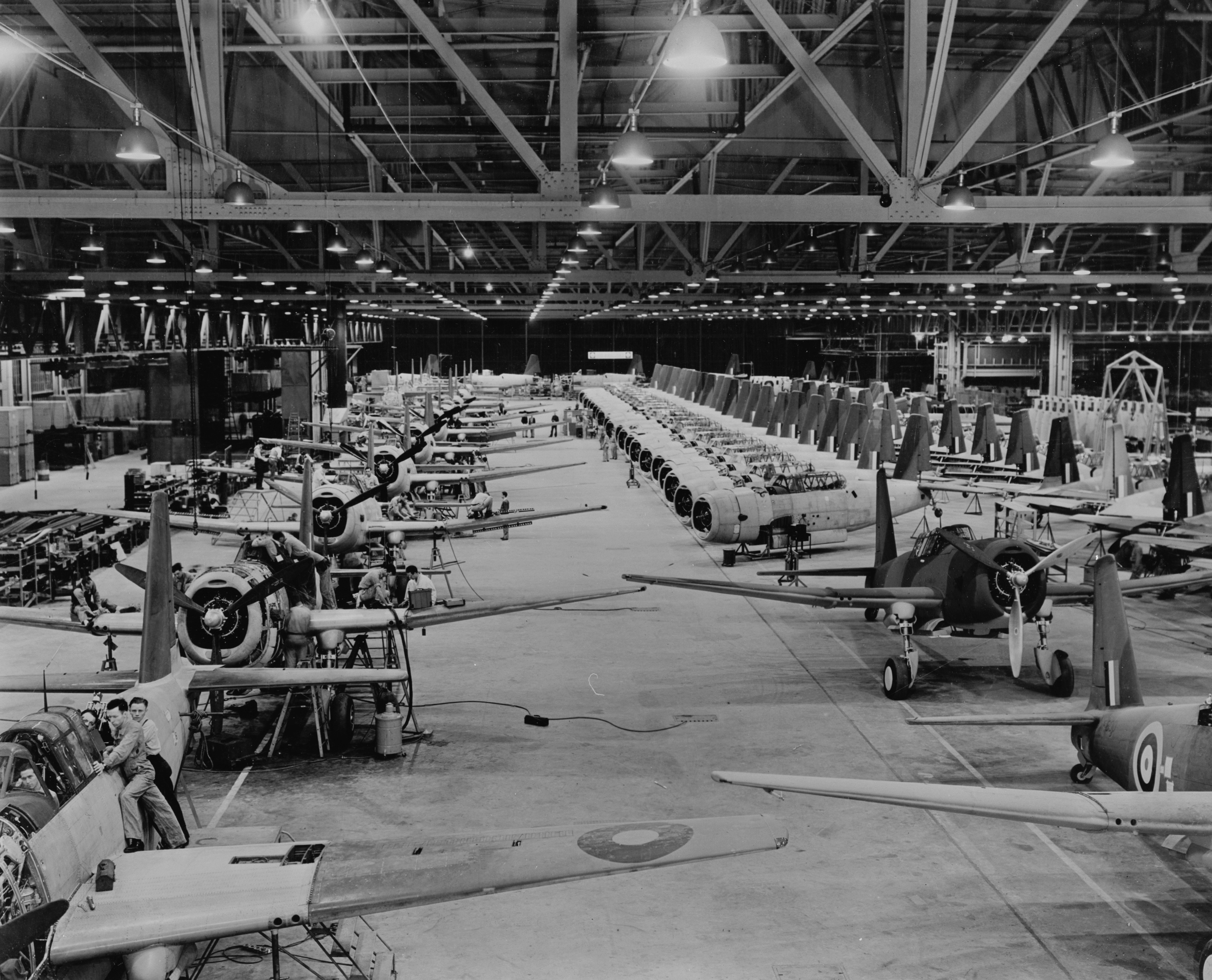 Production of the Vultee Vengeance bombers for the Royal Air Force at Downey, California (USA).